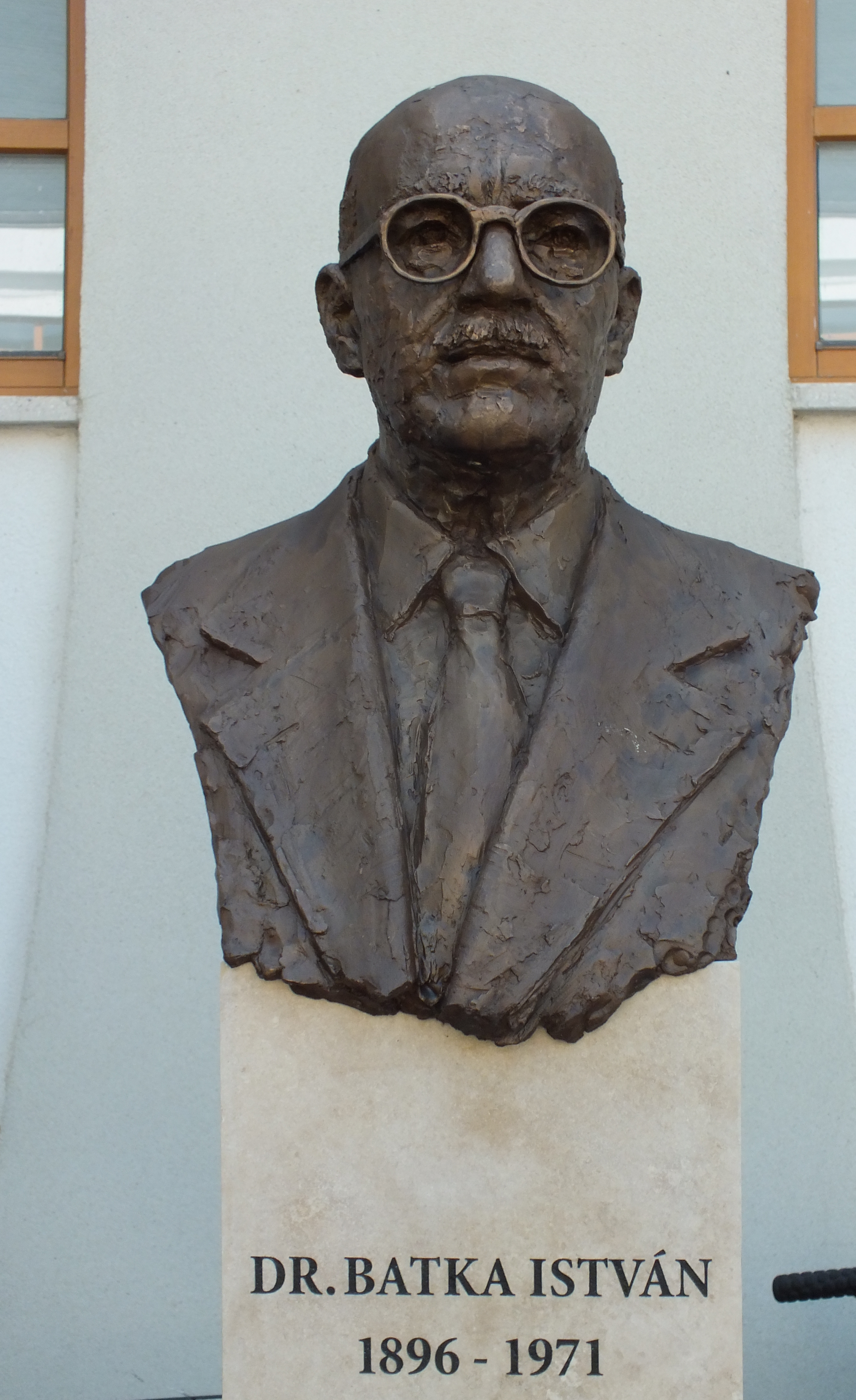 Statue of István Batka, head physician in Makó, Hungary.